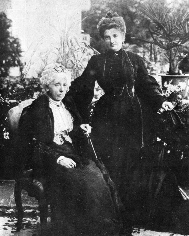 Italian Queen with her mother at Agliè Castle